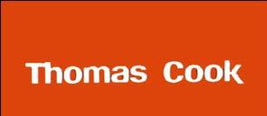 Peter, Thomas Cook Uk LTD,Template:Thomas Cook Old Logo,1999